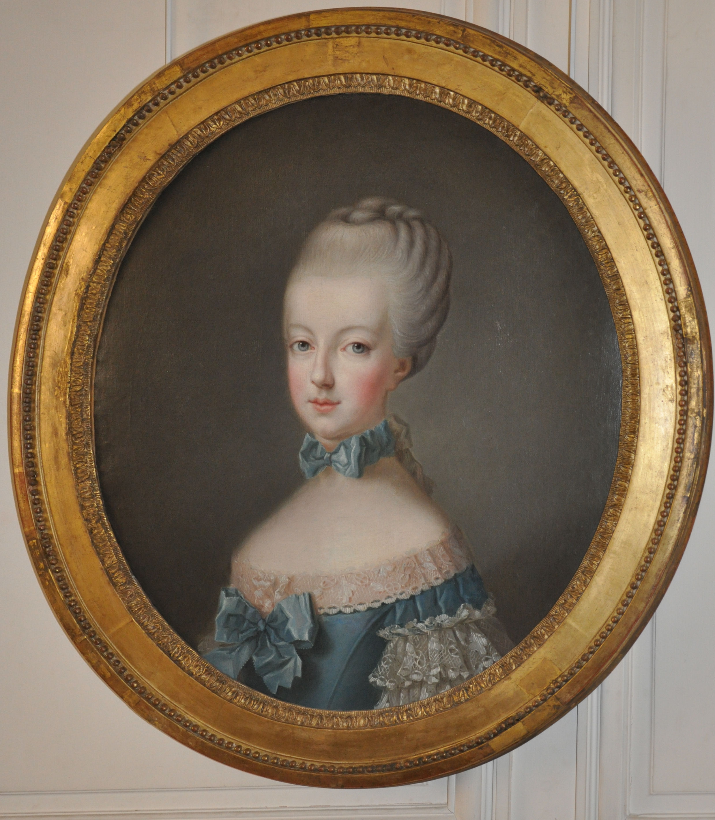 Portrait of Marie-Antoinette, by Jean-Baptiste Charpentier le Vieux, after Joseph Ducreux